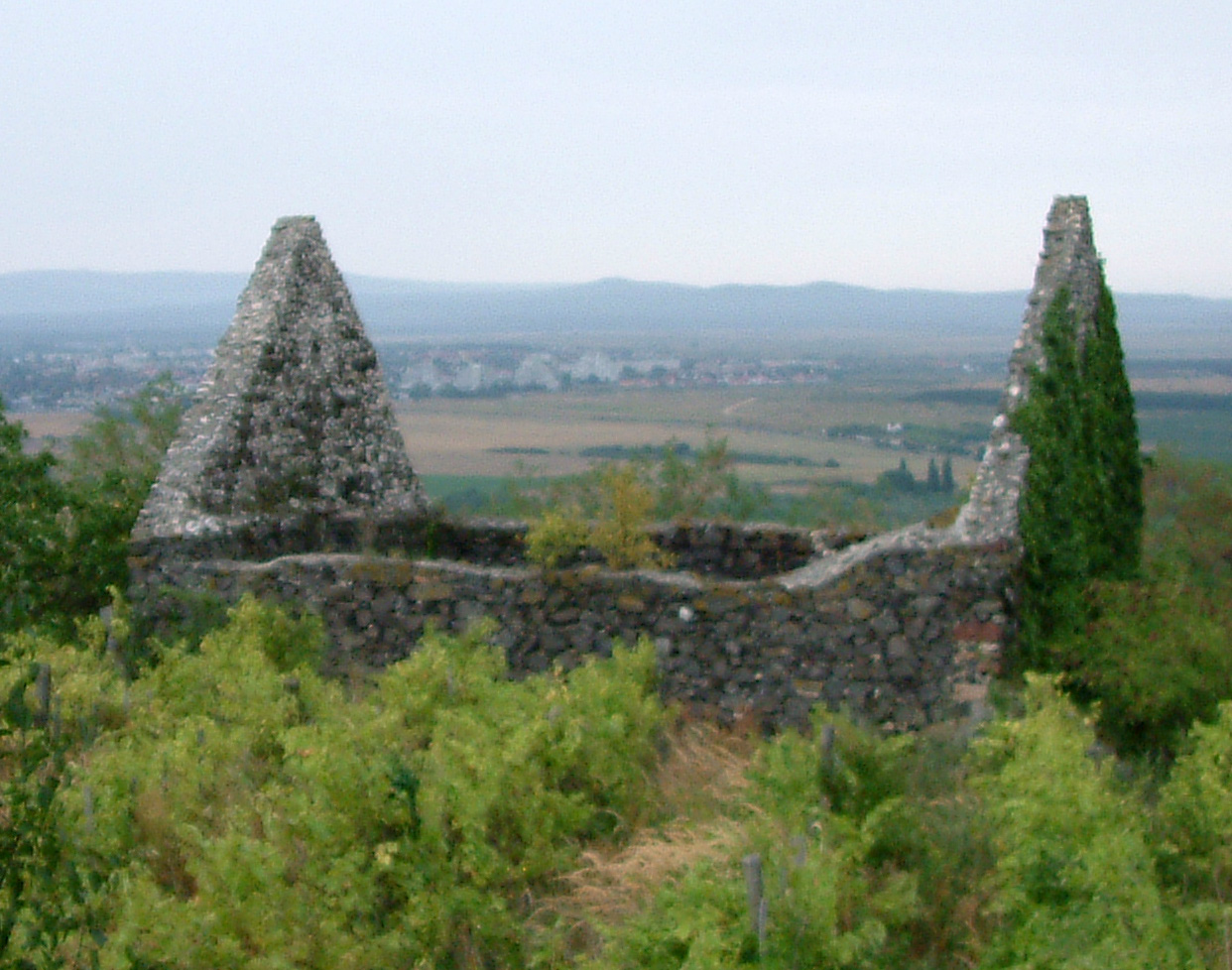 The 'Bad Church' on the hill Csobánc, Hungary, with Tapolca in the background.